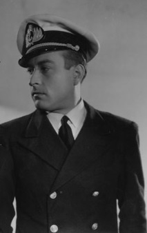 Alfredo Jordan- actor